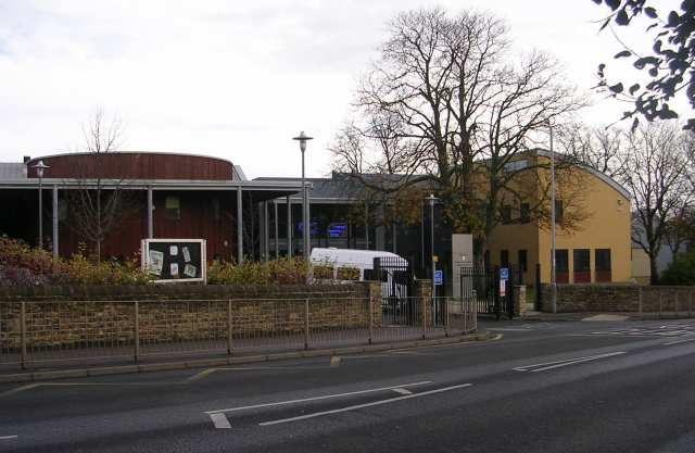 Immanuel C of E Community College - Leeds Road